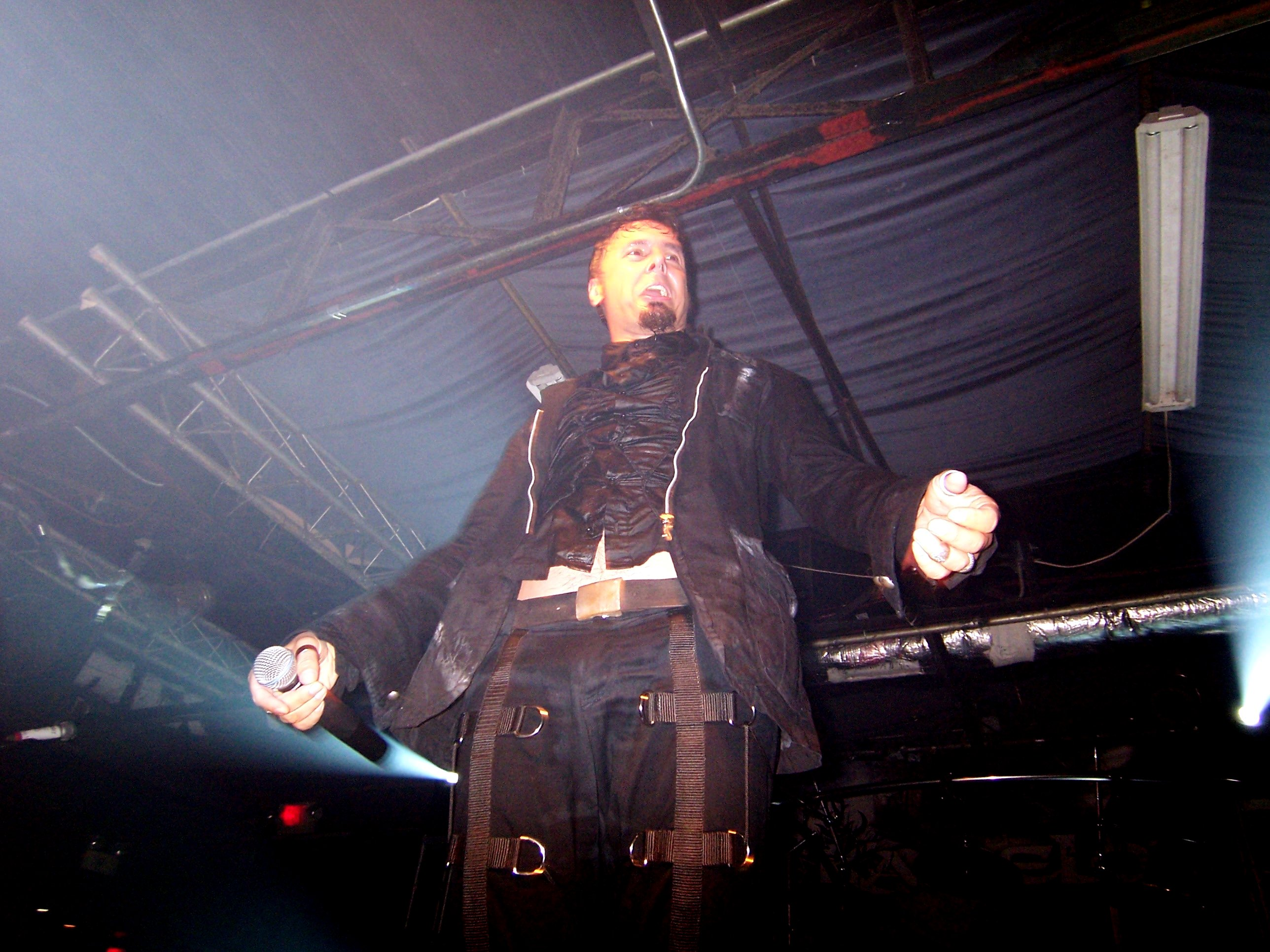 Roy Khan performing live in Texas